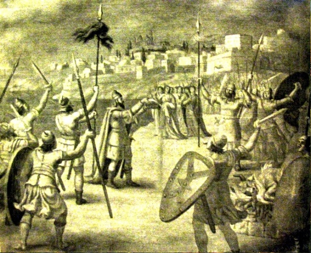 "Krum makes offerings to Gods before Constantinople walls " by Nikolai Pavlovich